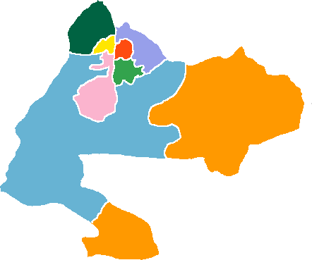 Subdivision of Ürümqi: ■ 米东区 - Midong District ■ 新市区 - Xinshi District ■ 水磨沟区 - Shuimogou District ■ 天山区 - Tianshan District ■ 沙依巴克区 - Saybagh District ■ 头屯河区 - Toutunhe District ■ 达坂城区 - Dabancheng District ■ 乌鲁木齐县 - Ürümqi County